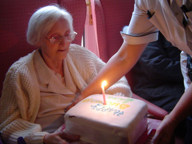 A woman's 78th birthday on 4th December 2005. Ardencraig Care Home (Glasgow).